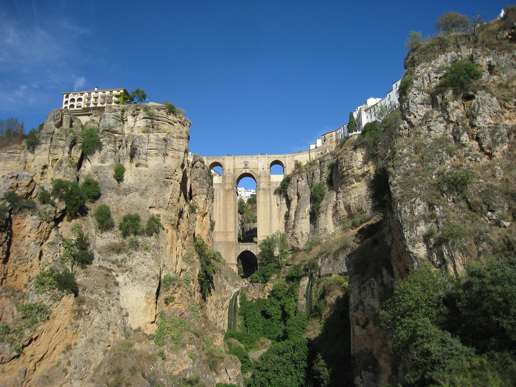 Puente Nuevo de ROnda, Málaga, Spain.